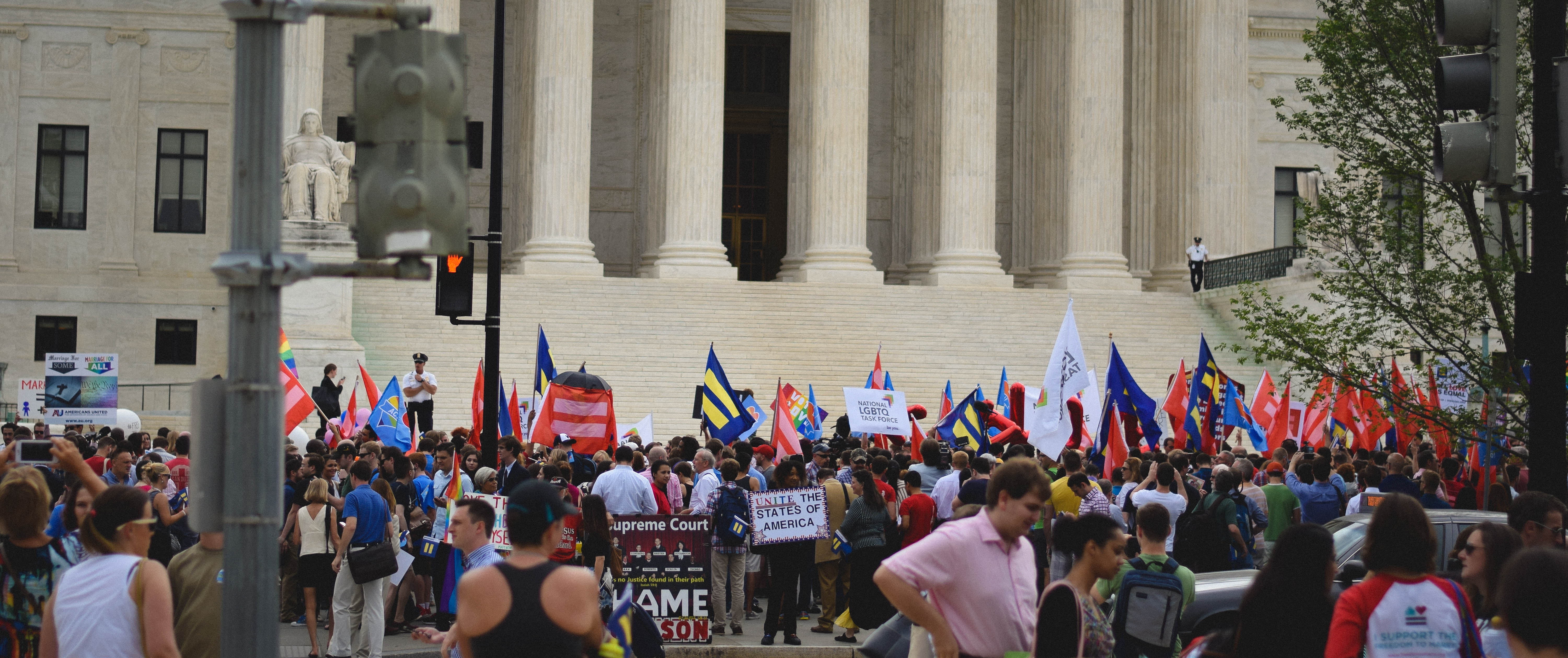 The crowd assembled in front of the Supreme Court of the United States in Washington, DC on Friday, June 26, 2015, a half-hour before the Court would hand down its decision in Obergefell v. Hodges, ruling that bans on same-sex marriage violate the Fourteenth Amendment to the Constitution.